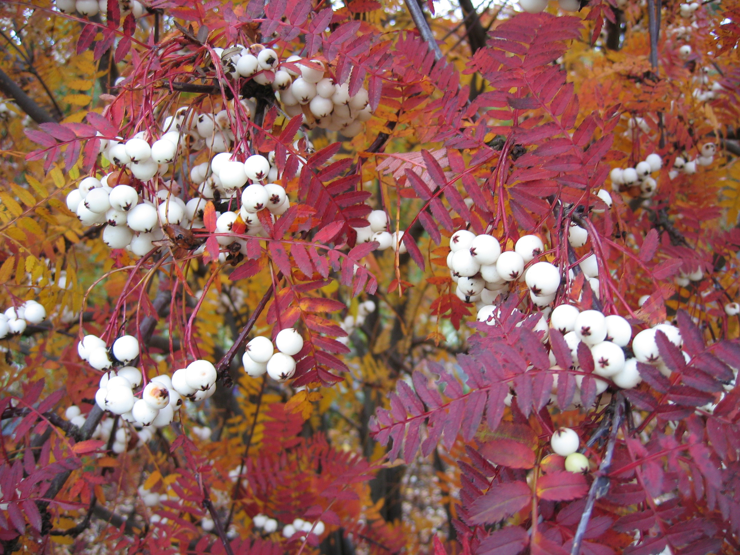 Berries and leaves in autumn of Sorbus fruticosa. Picture taken in the Botanical Garden in Reykjavik, Iceland